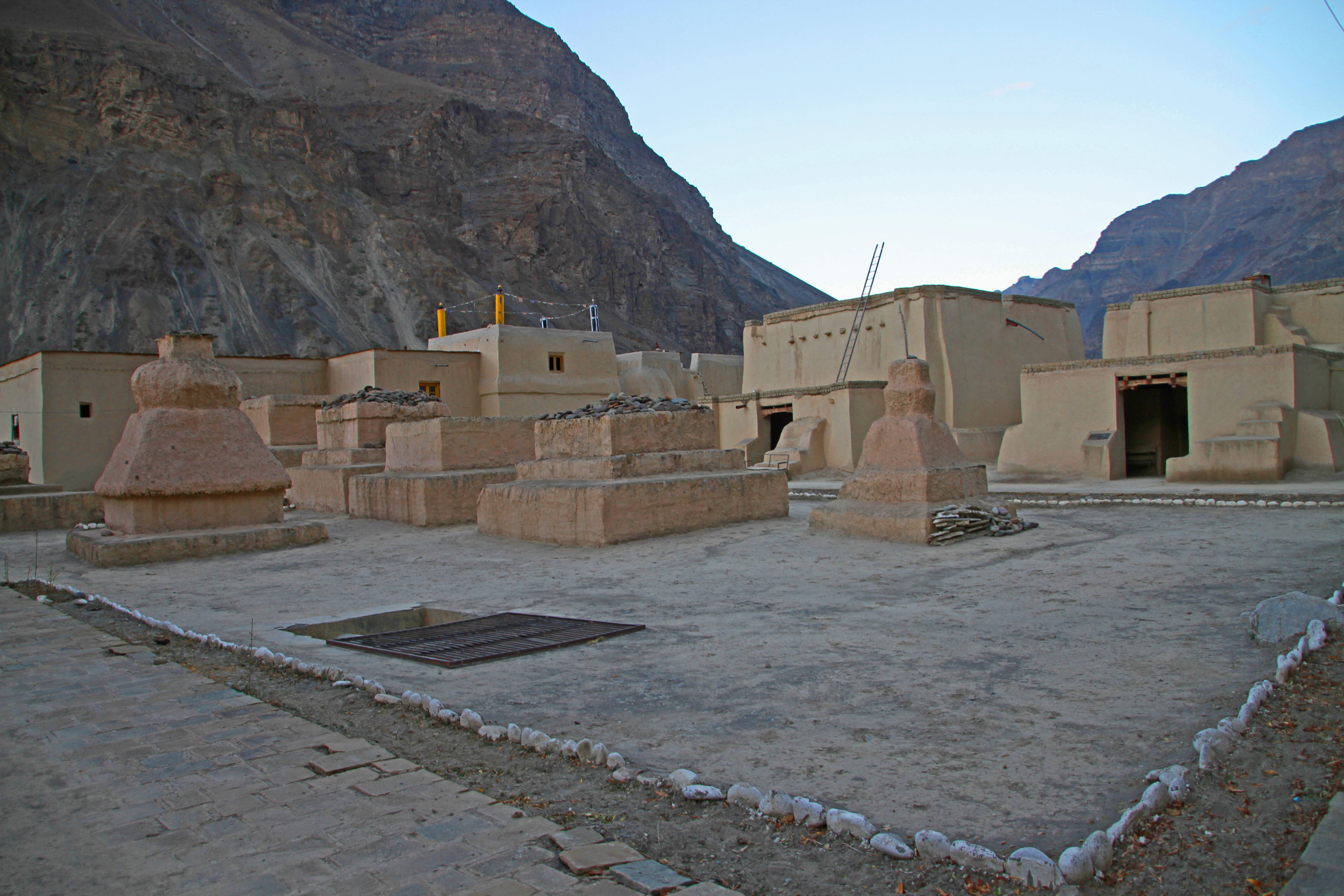 Tabo monastery in Himachal Pradesh in India.